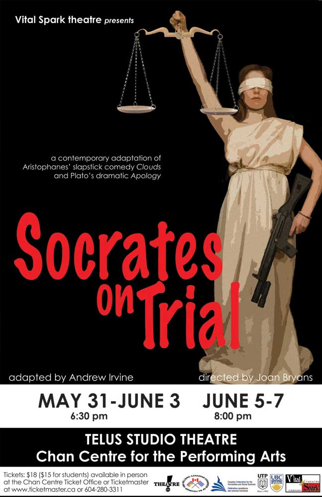 Colour playbill